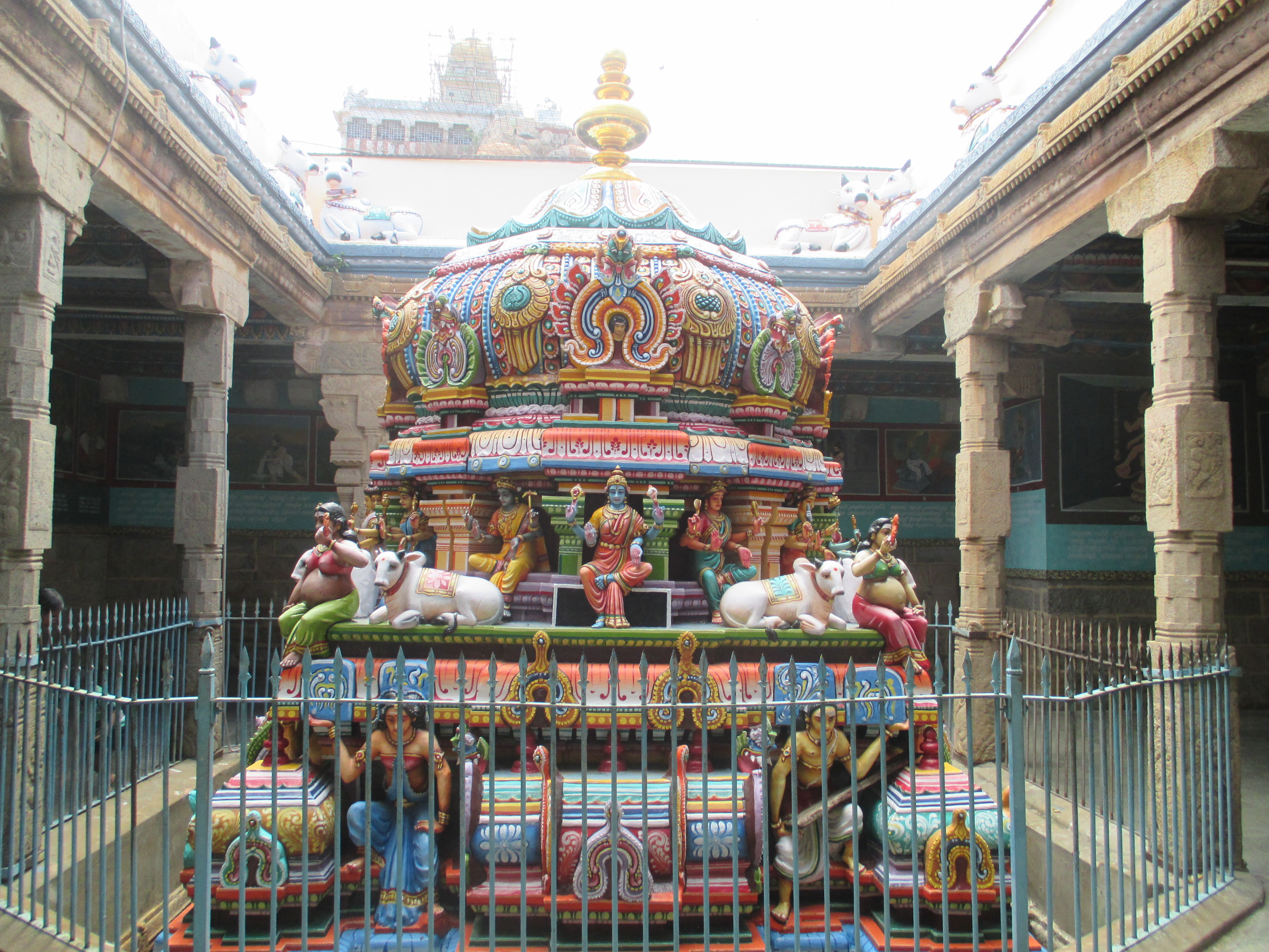 Thayumanavar Temple